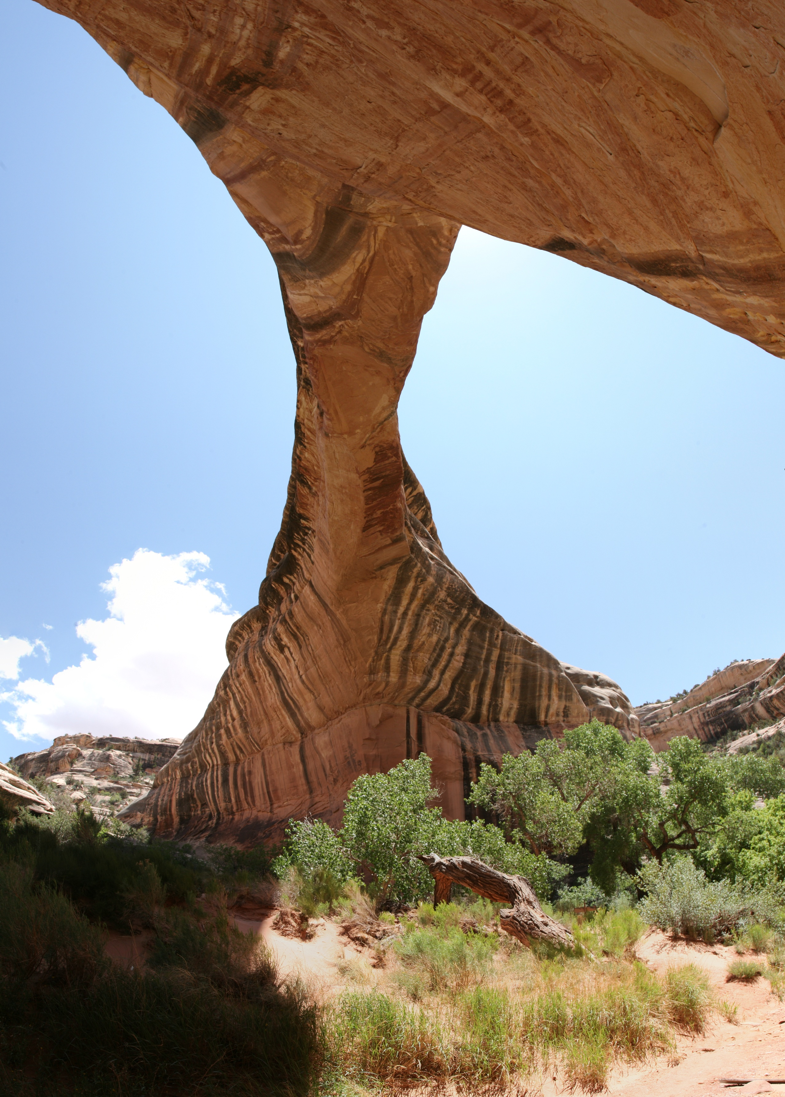 Sipapu Bridge in Natural Bridges National Monument, Utah, USA